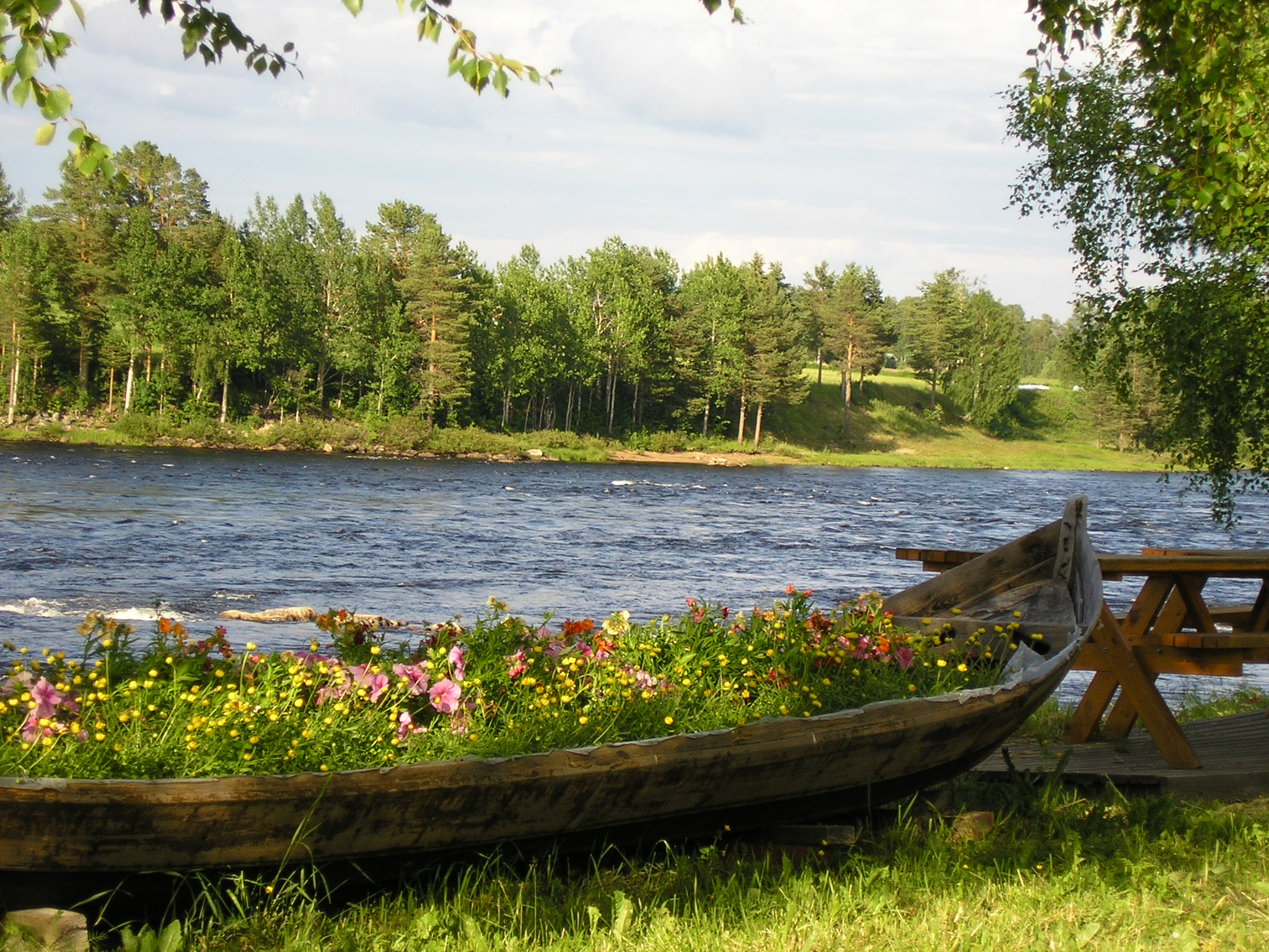 Jarhois